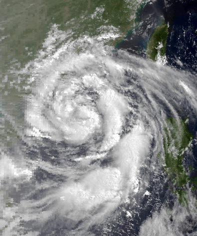 Severe Tropical Storm Lynn on July 5, 1981